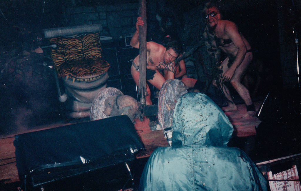 Performance of American band Gwar.